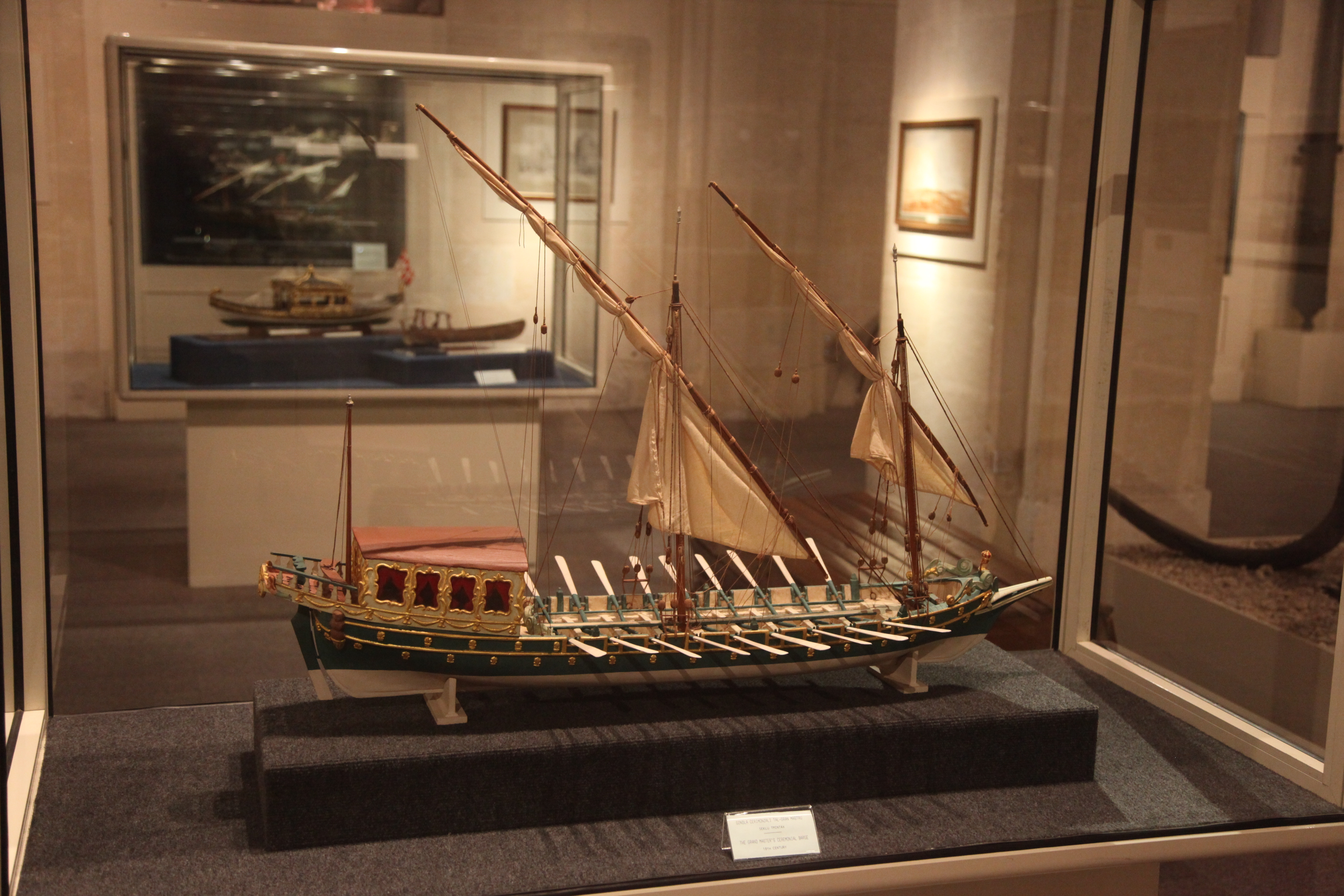 The Grand Master's ceremonial barge (18th century). Model in the Maritime Museum, Vittoriosa (Birgu), Malta